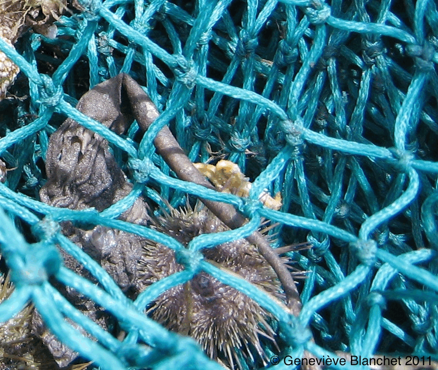 oursin